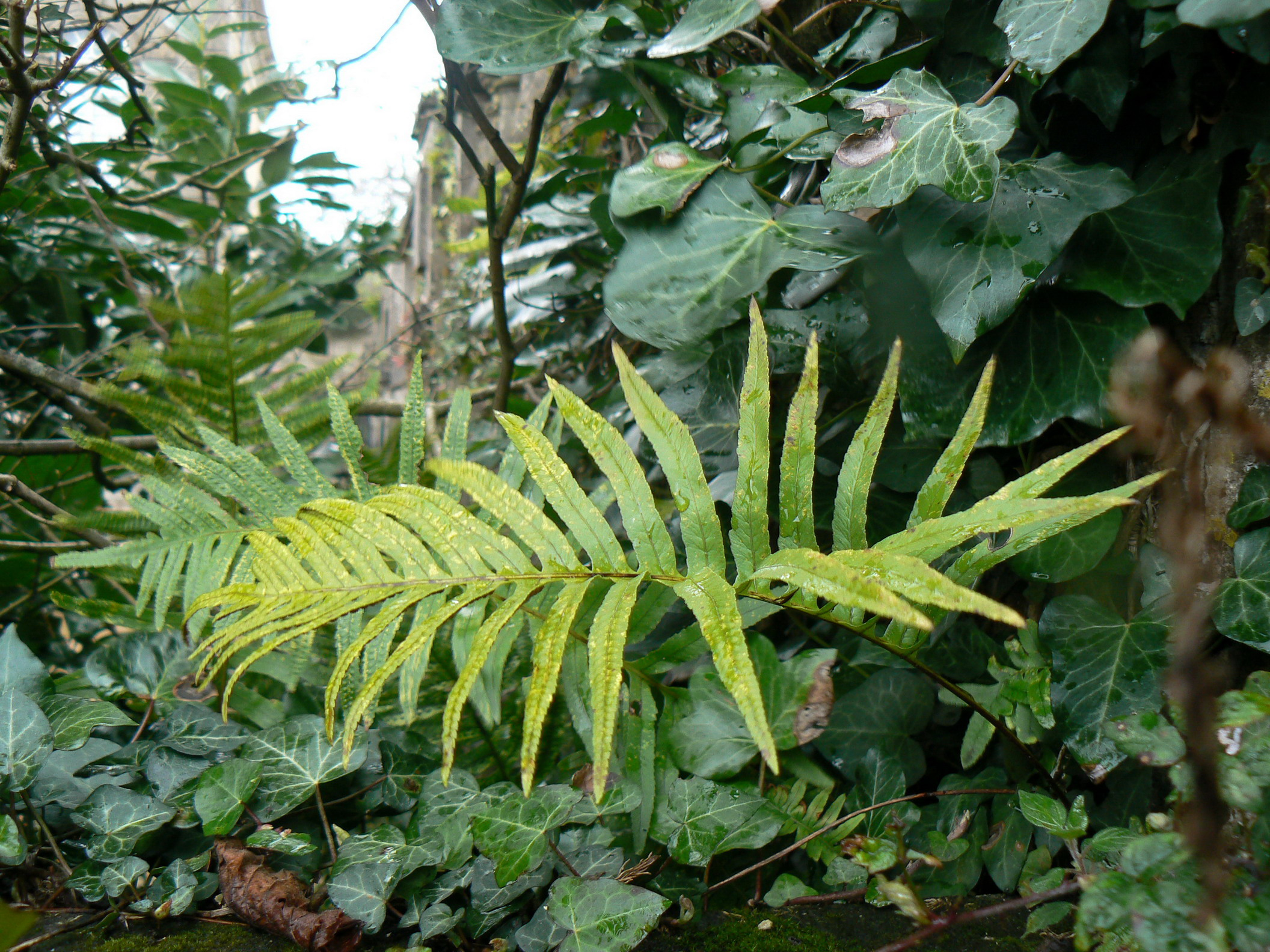 Polypodium cambricum, on garden wall, Valognes, France